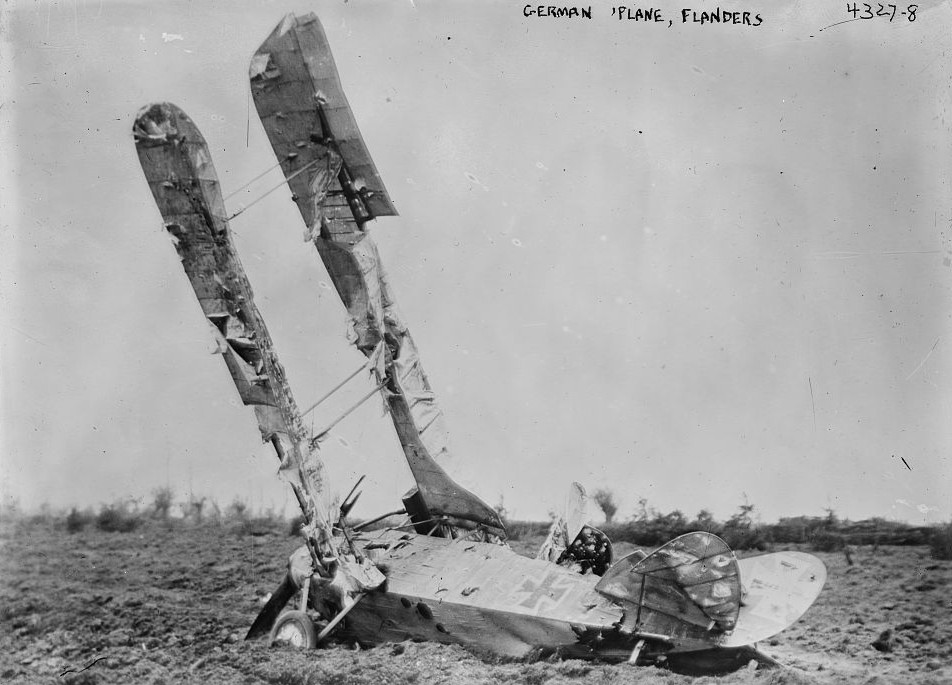 A German C-type plane wreck (maybe a Rumpler C.III) in Flanders, Belgium, during the First World War.